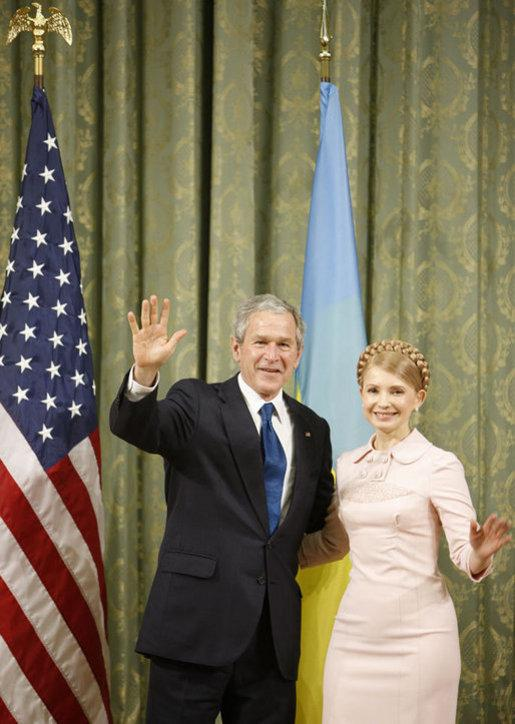 President George W. Bush and Prime Minister of Ukraine Yulia Tymoshenko, Washington, 1.4.2008